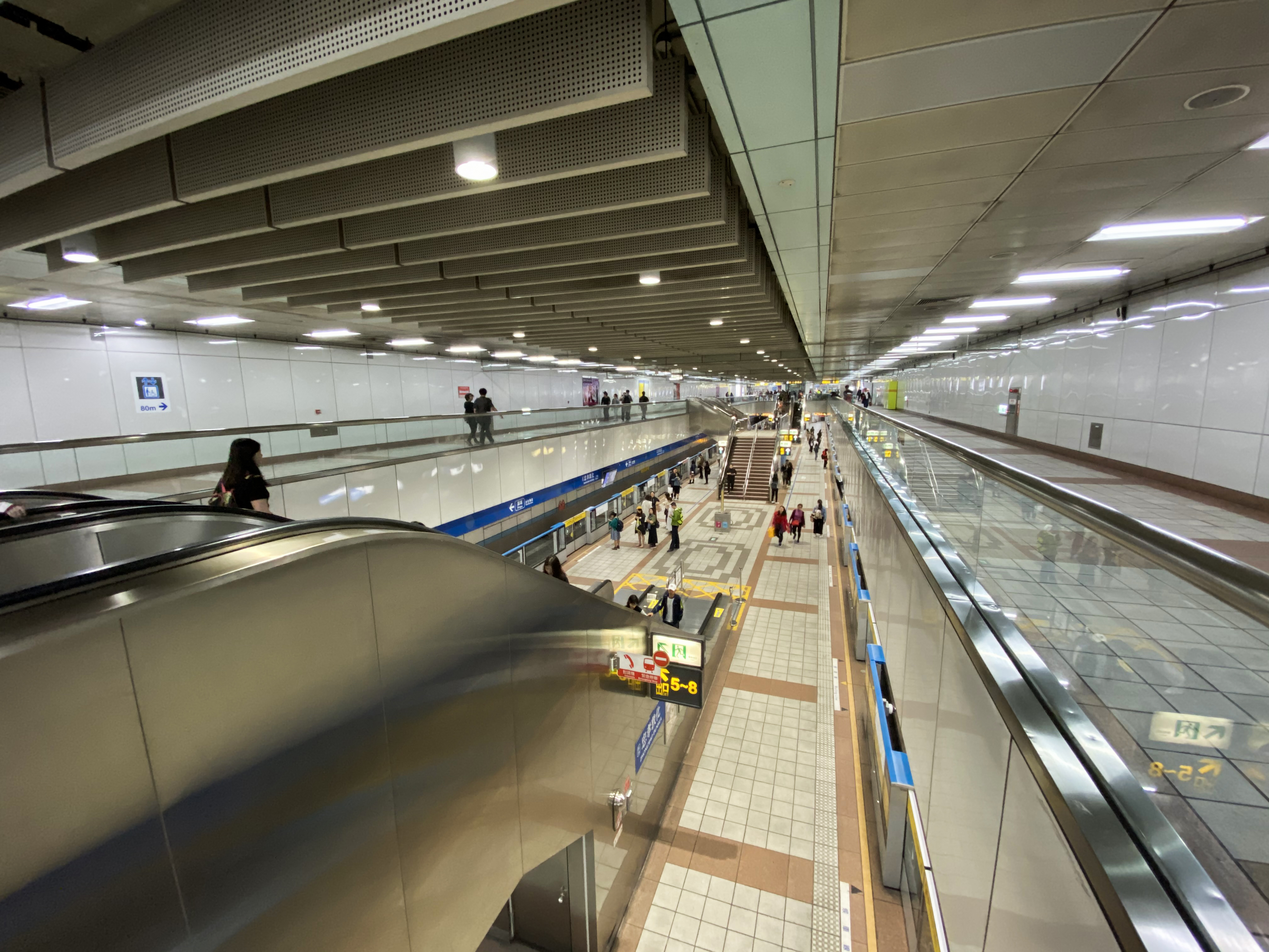 Zhongxiao Dunhua Station